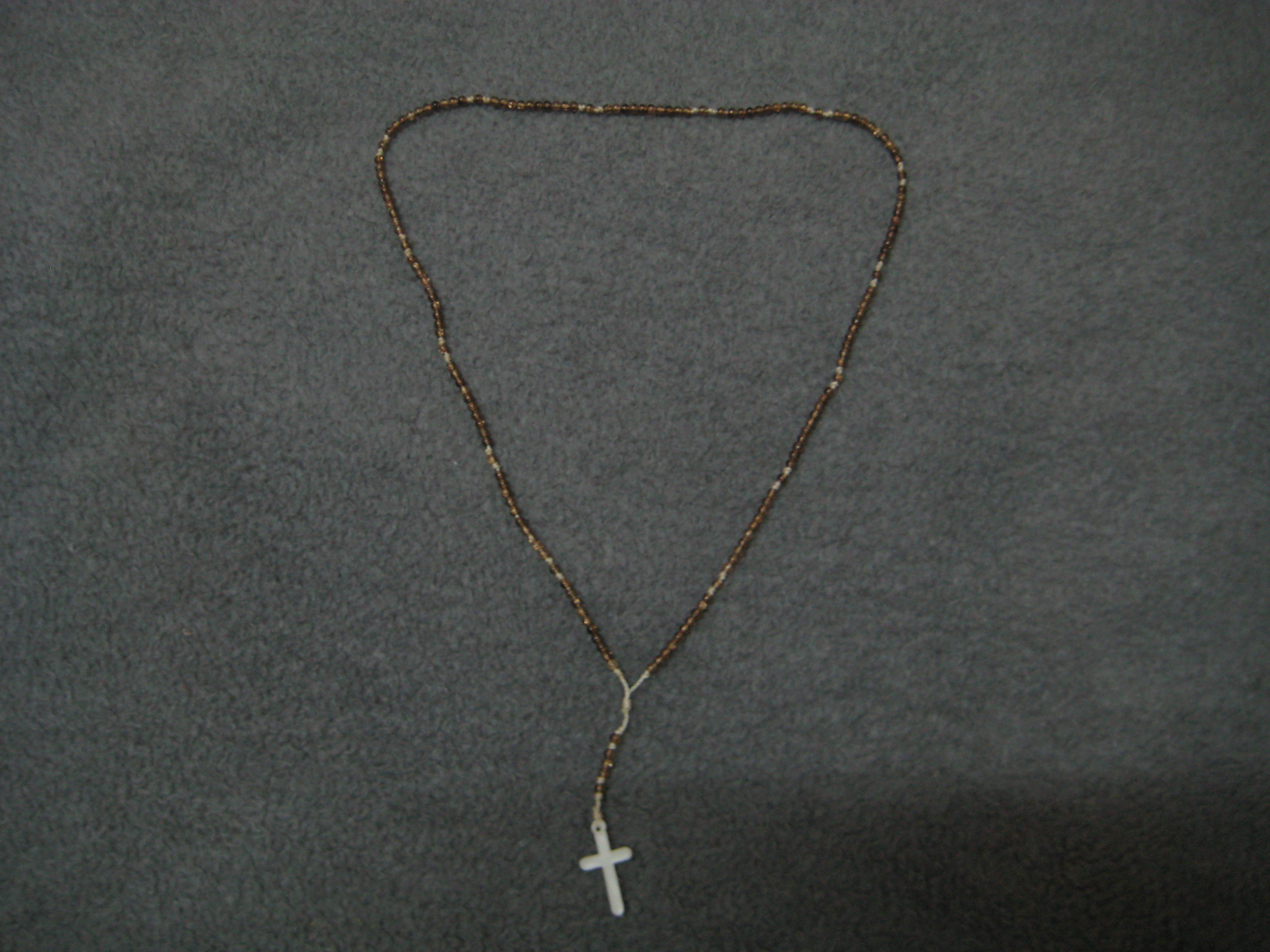 Rosary 153